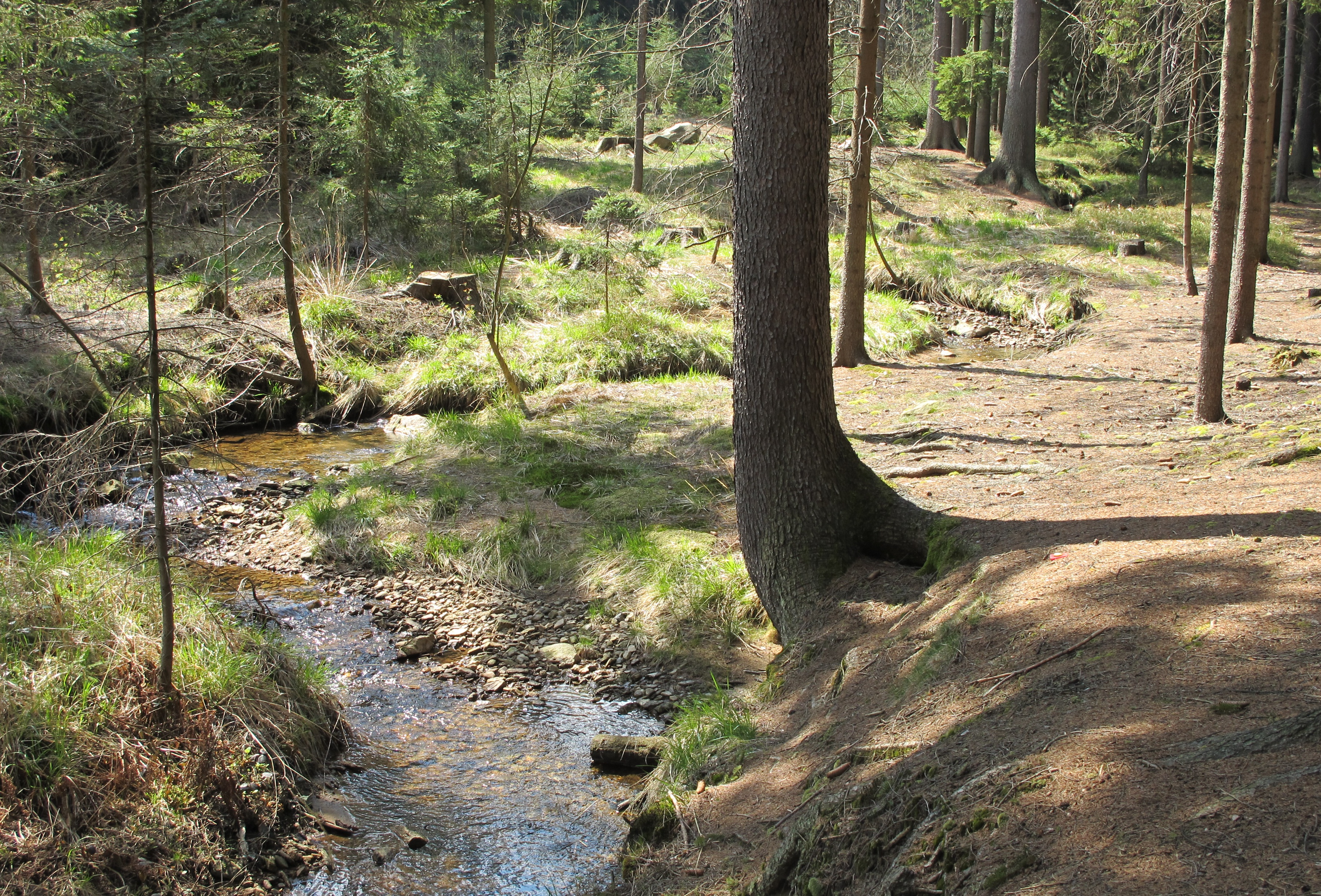 Stream Novohradka in Natural Reserve Maštale (Ústí nad Orlicí District, Czech Republic)